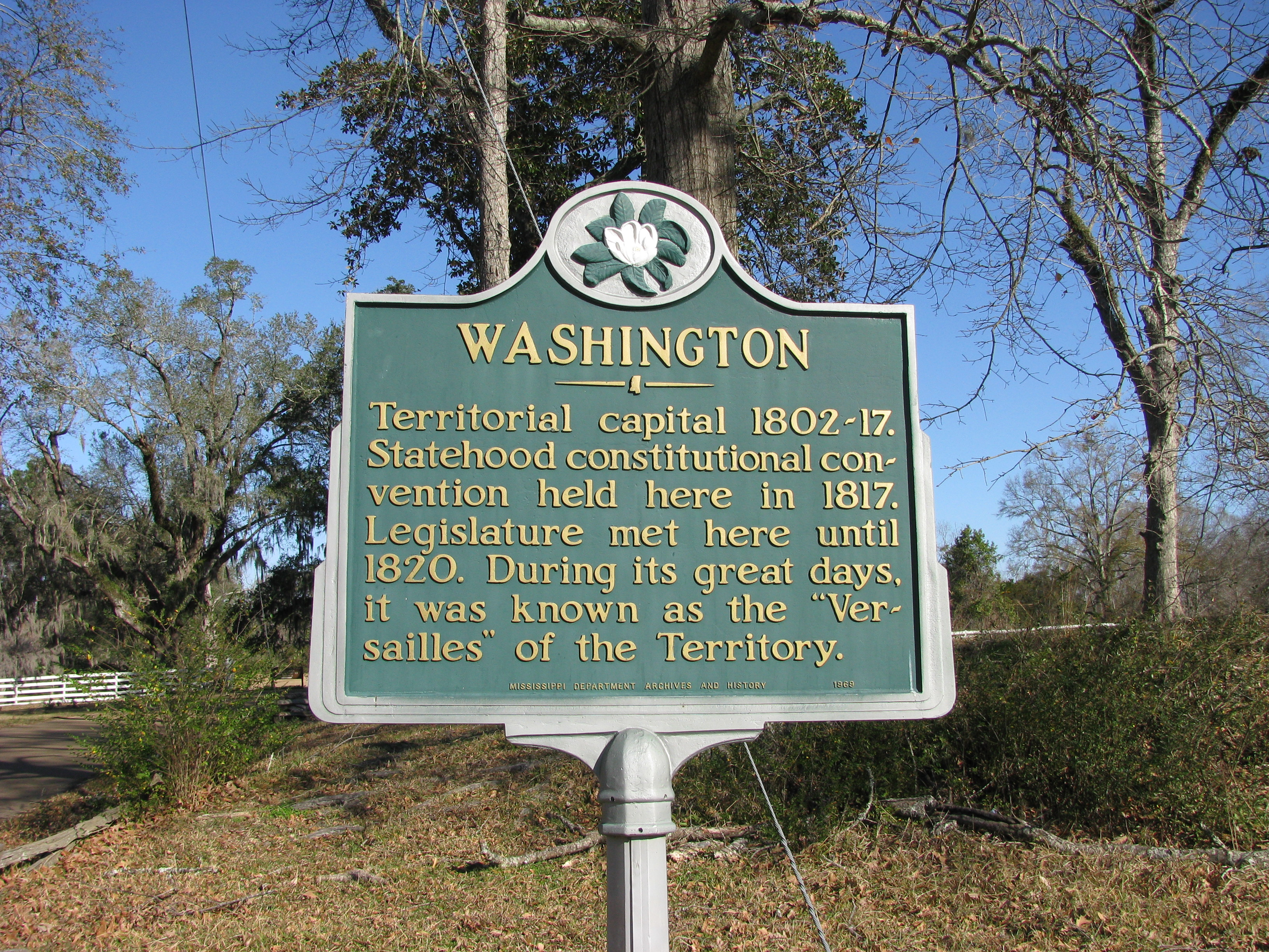 Washington (Adams County), Mississippi.